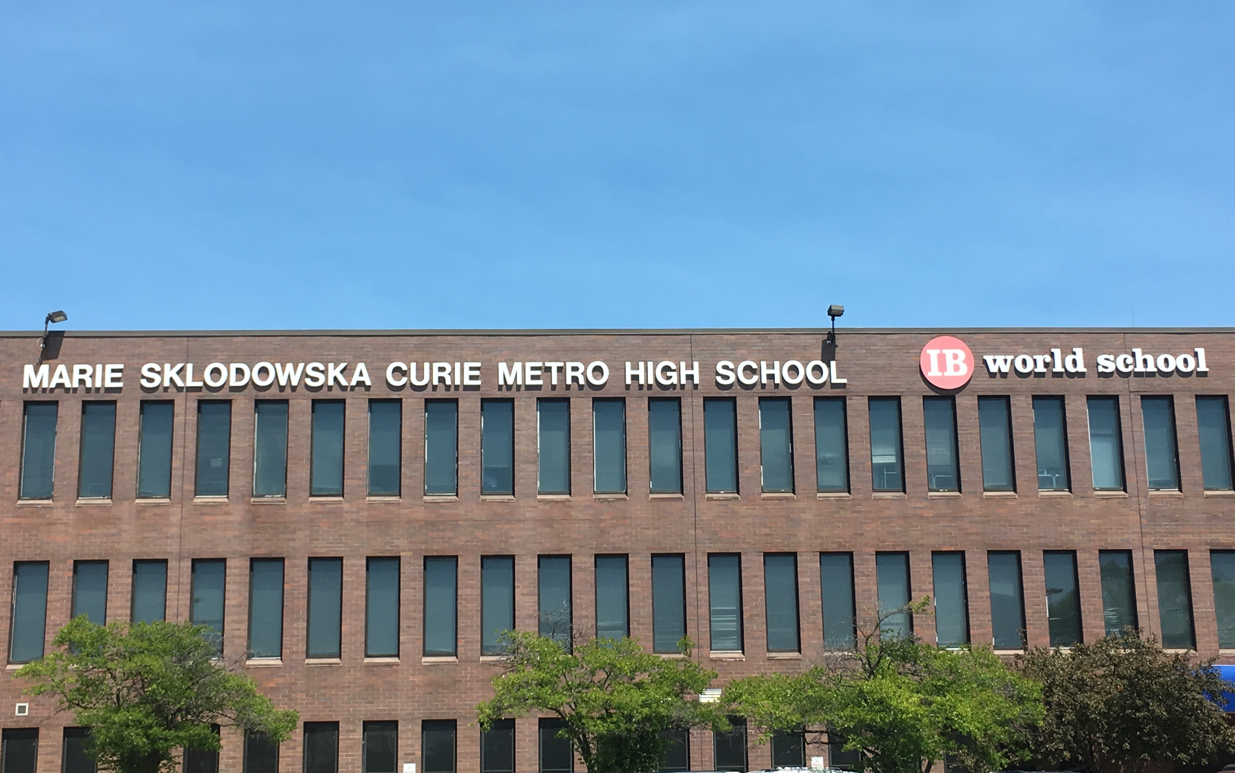 Image of Curie Metropolitan High School